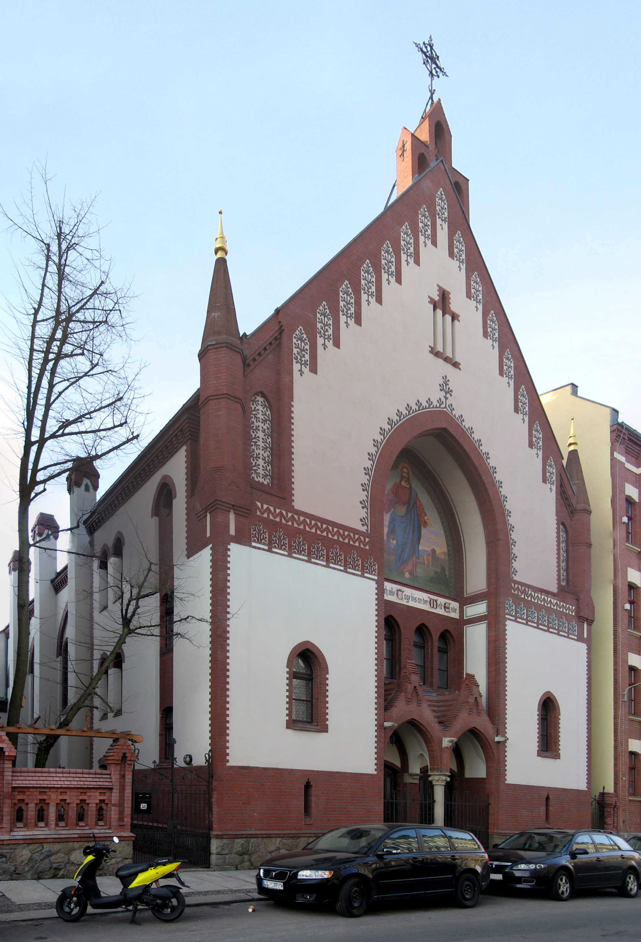 Catholic Apostolic church in Leipzig, Koernerstrasse 58